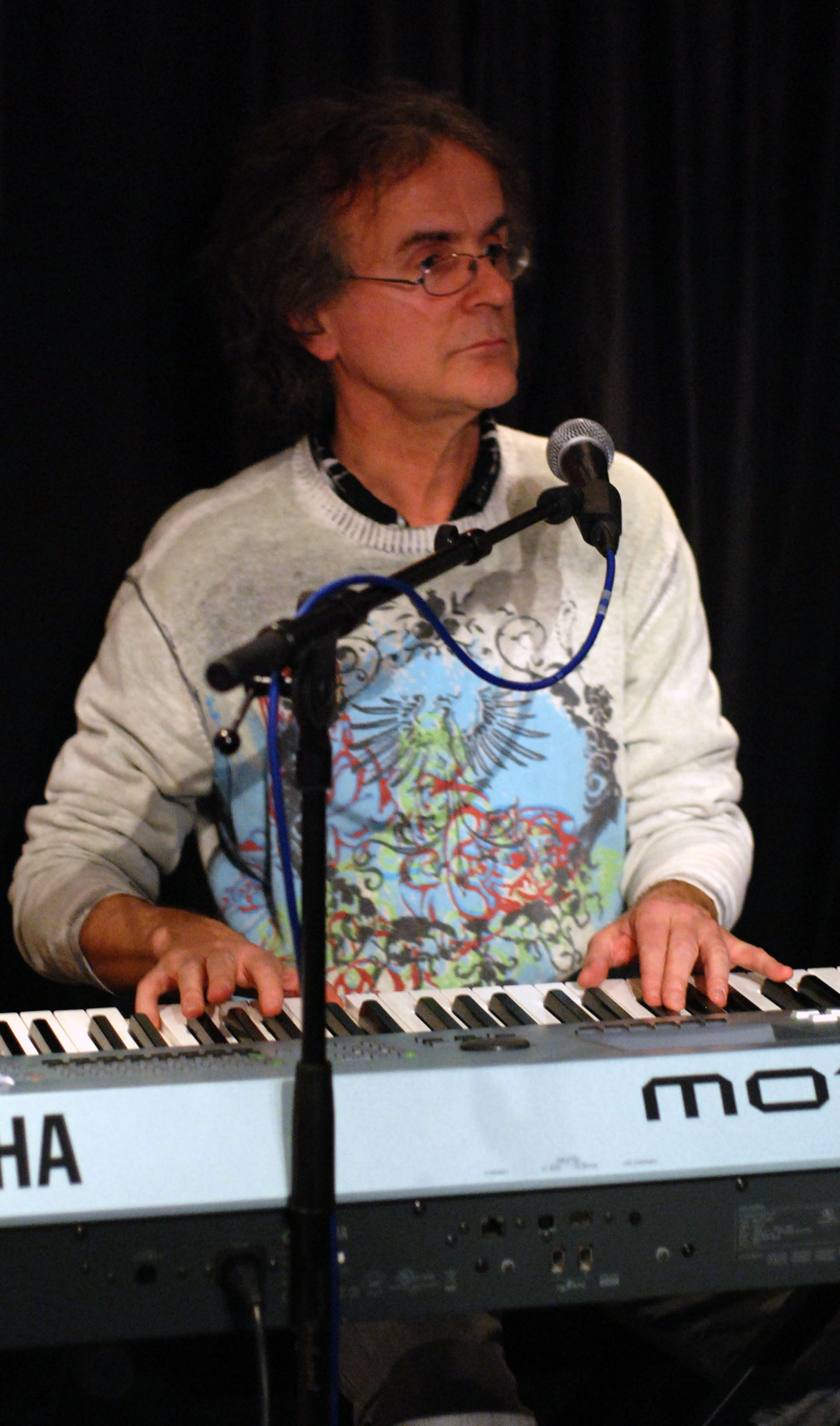 Henning Sommerro - live at Gregers bar in Hamar, Hedmark, Norway.